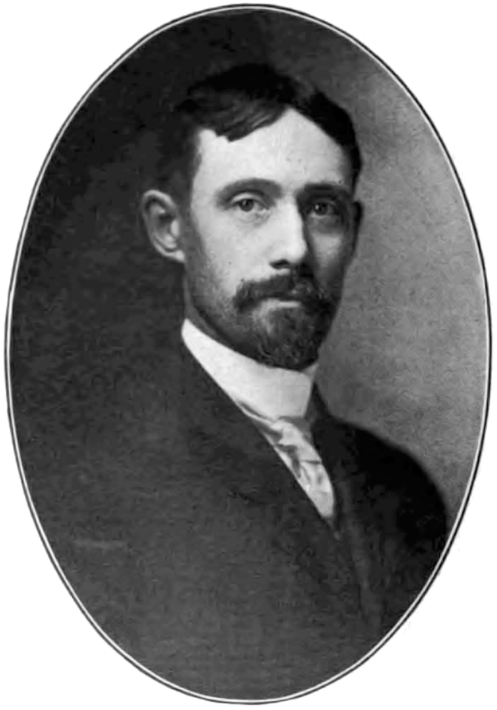 Photographic portrait of Willard N. Clute from frontispiece of The Fern Bulletin Vol. 15, No. 4, Oct. 1907.